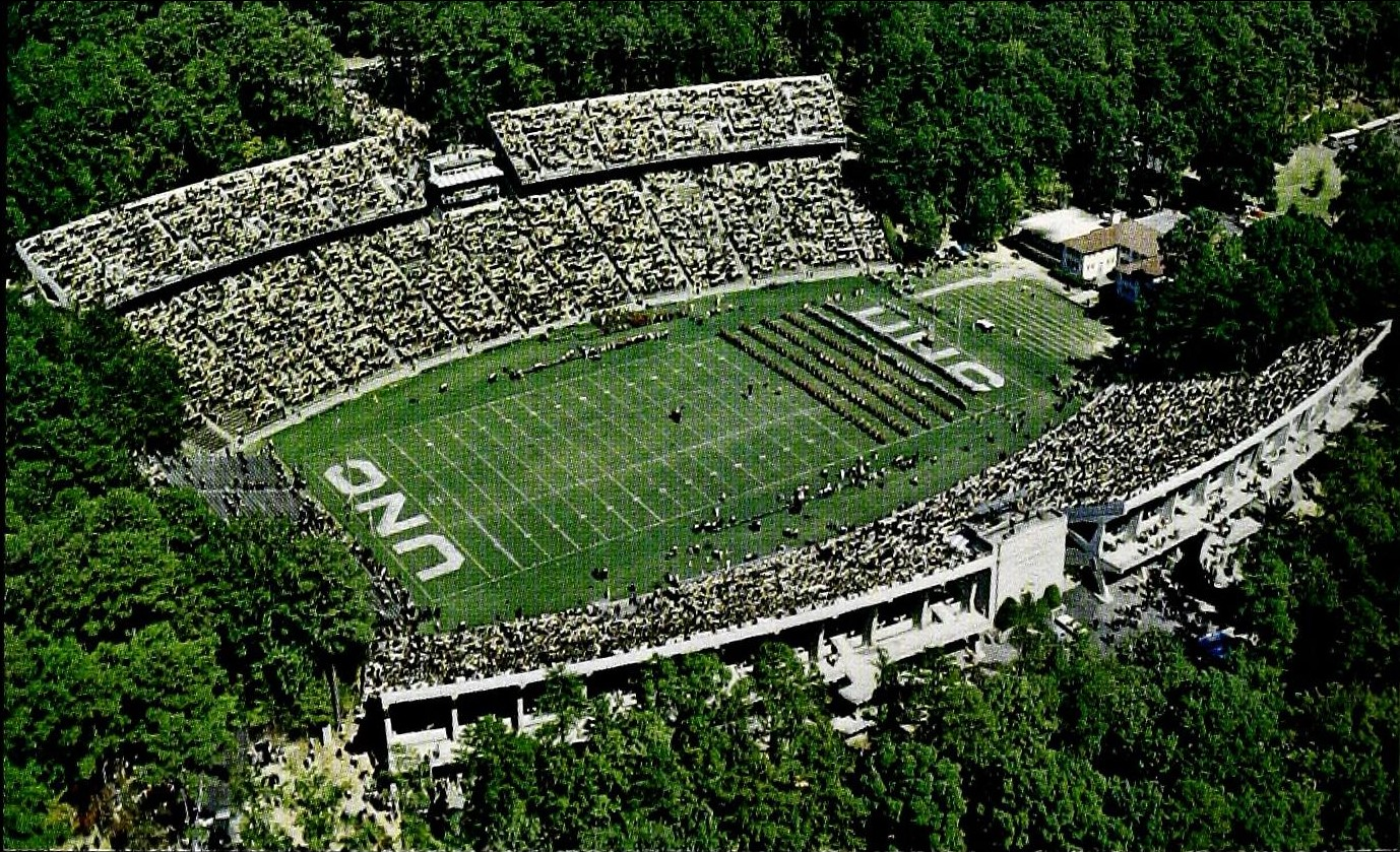 Kenan Memorial Stadium in Chapel Hill, North Carolina in 1971